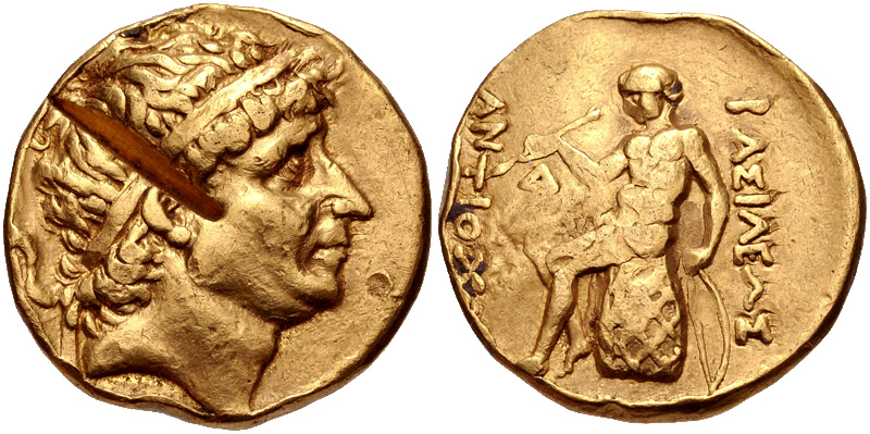 Antiochos II Theos Ai Khanoum mint. 261-246 BC. AV Stater (18mm, 8.47 g, 6h). Aï Khanoum mint. Diademed head of Antiochos II right / Apollo seated left on omphalos, testing arrow and resting hand on grounded bow; Δ above knee.